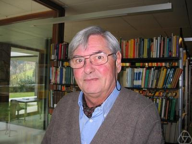 Jacques Martinet, Oberwolfach 2005